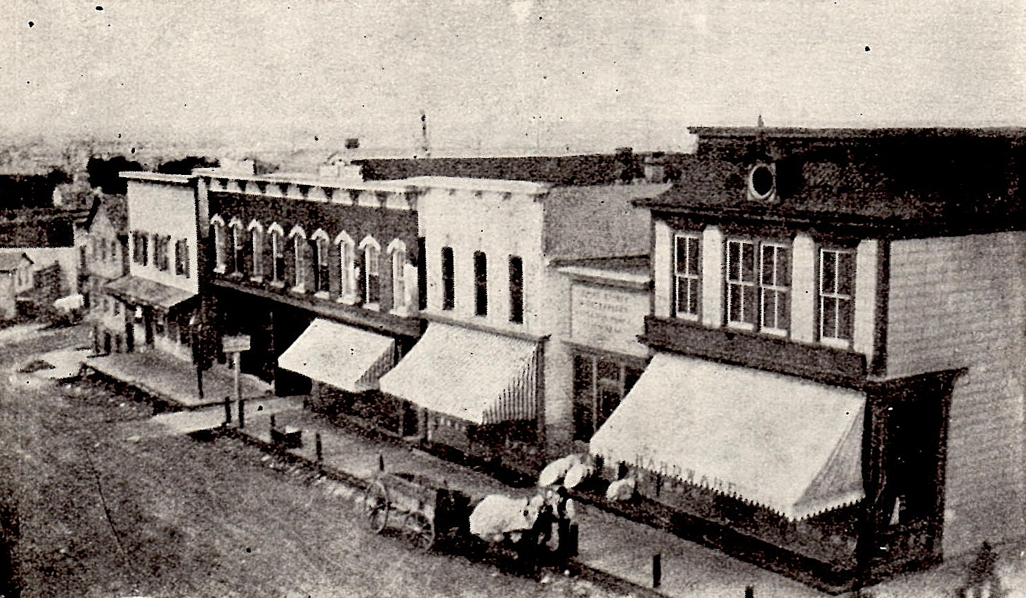 Period picture of the west side of Western Avenue south of Grove Street in Blue Island, IL, showing Edward Seyfarth's hardware store and other businesses